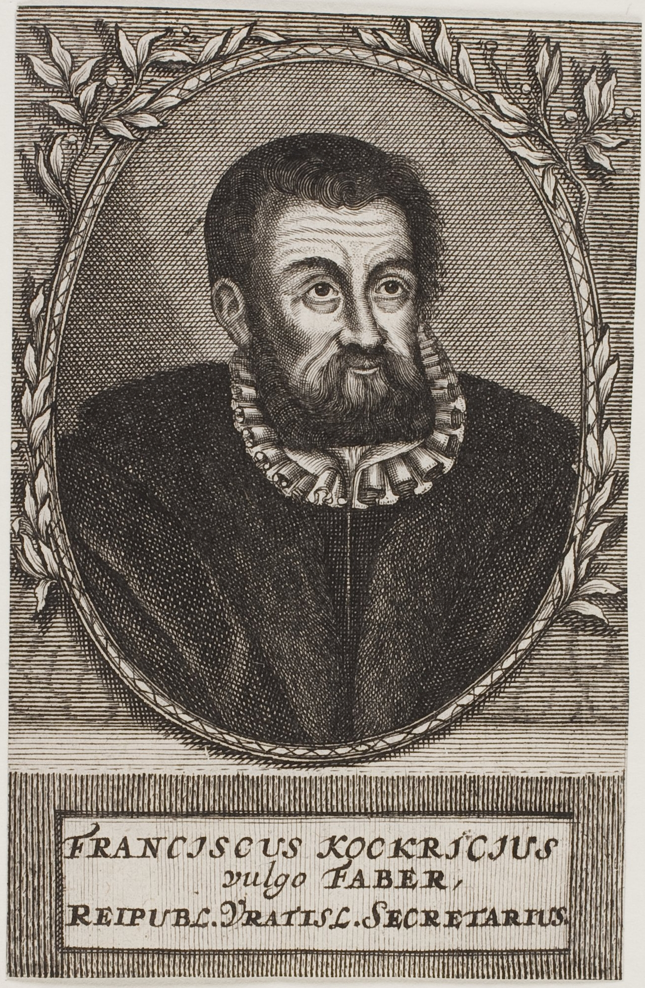 Franz Koeckritz was a Silesian humanist, writer and historician. He served as a secretary to the town council of Breslau/Wrocław